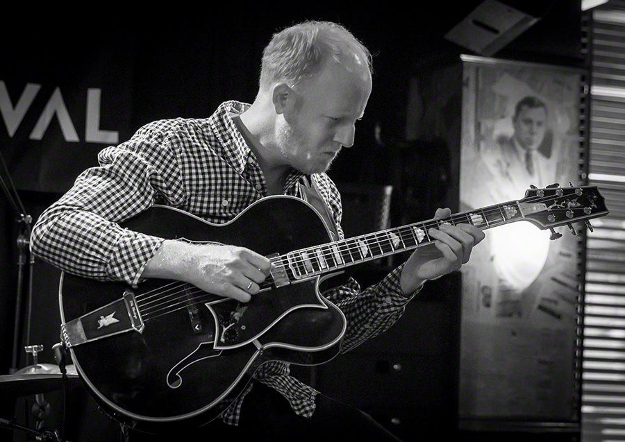 Bjørn Vidar Solli at the stage of Herr Nielsen. The concert was part of the Oslo Jazz Festival in Norway and took place on 15. August 2016. Lineup:Bjørn Vidar Solli (guitar)Seamus Blake (tenor saxophone)Steinar Nickelsen (organ)Vladimir Kostadinovic (drums)